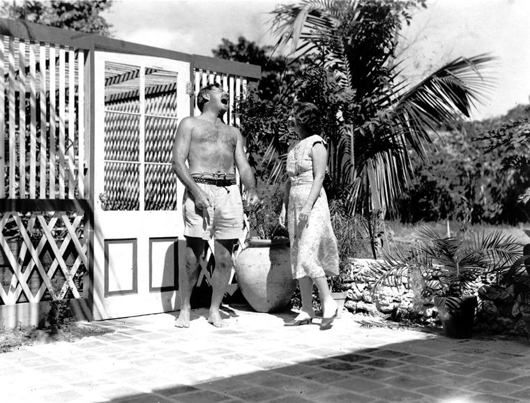 Ernest and Pauline Hemingway at the Hemingway's Key West home. Photograph in the Ernest Hemingway Photograph Collection, John F. Kennedy Presidential Library and Museum, Boston.